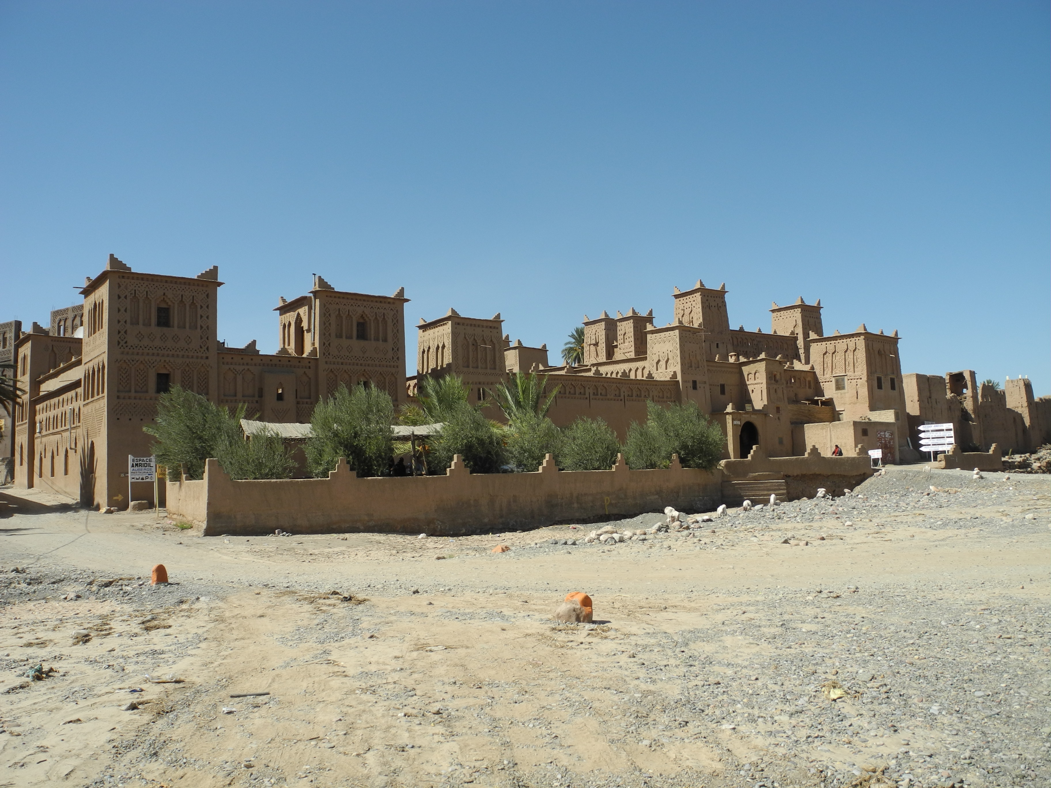 front view